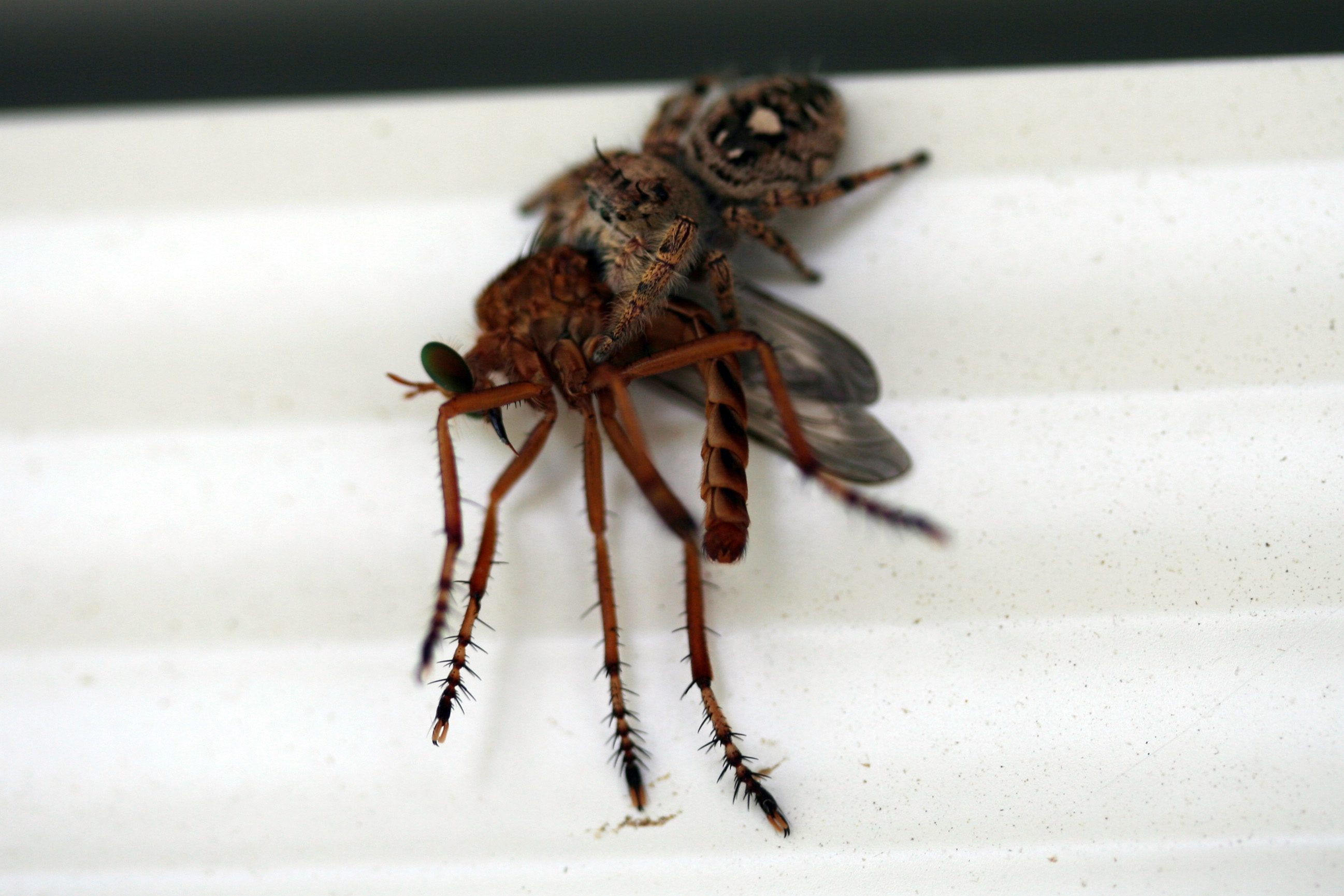 Jumping spider eating a robber fly on top of a porch door in South Mills, NC.